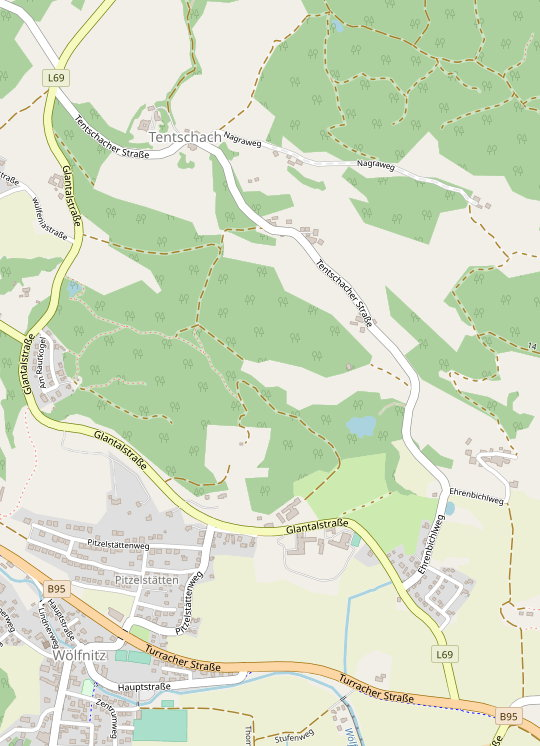 Tentschach, cadastral community Wölfnitz / Klagenfurt Wörthersee This map may be incomplete, and may contain errors. Don't rely solely on it for navigation.